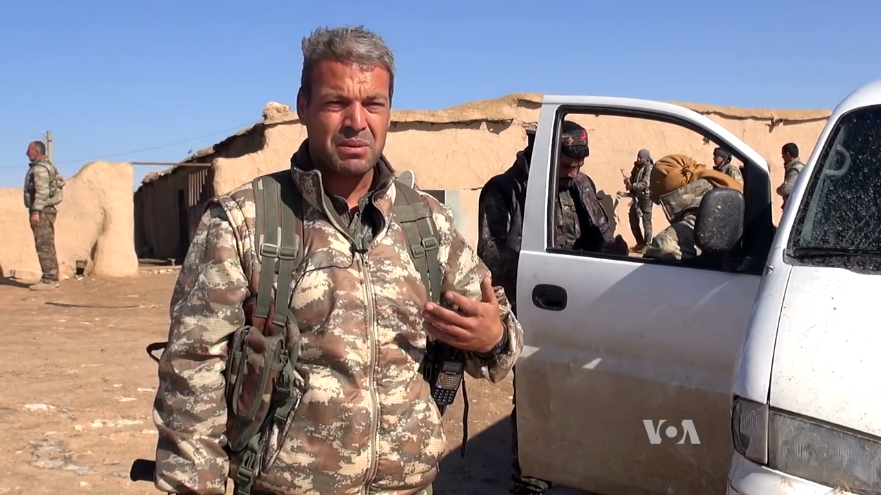 The commander of the Northern Sun Battalion, Adnan Abu Amjad, in the town of al-Hawl during the Battle of al-Hawl.